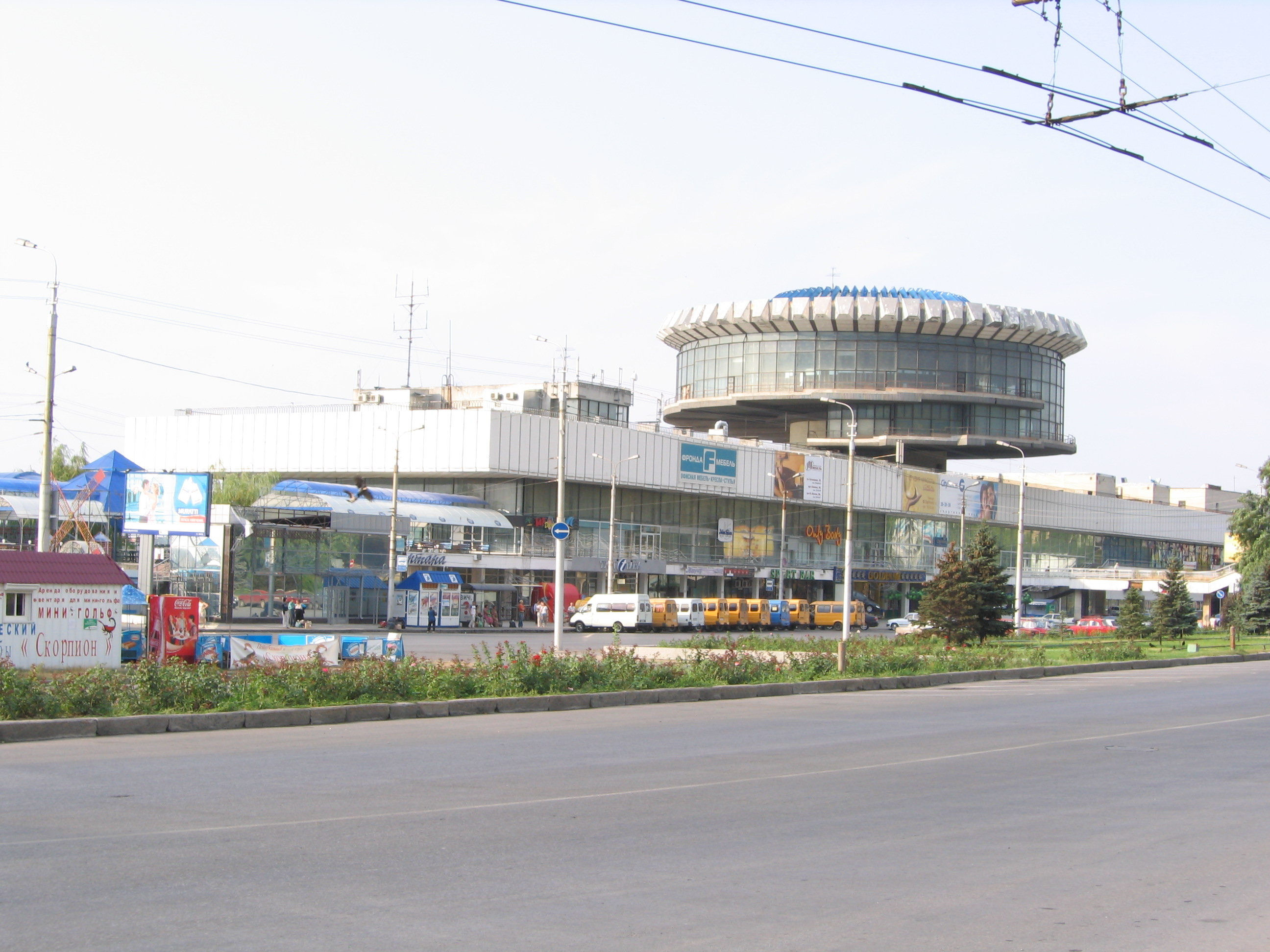 River-boat station in Volgograd